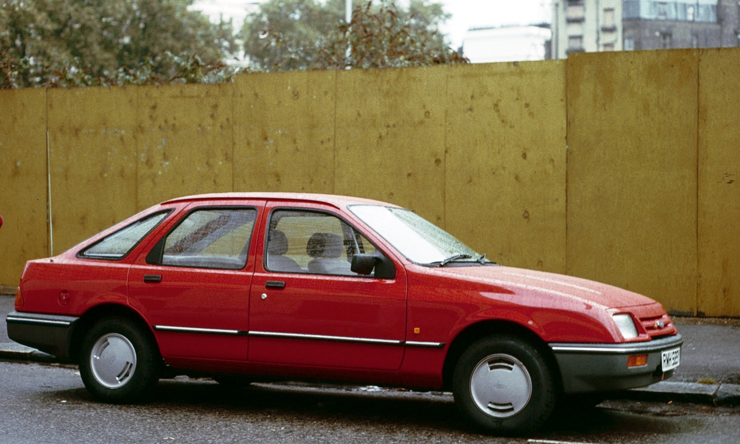 Ford Sierra 5 door - an early example